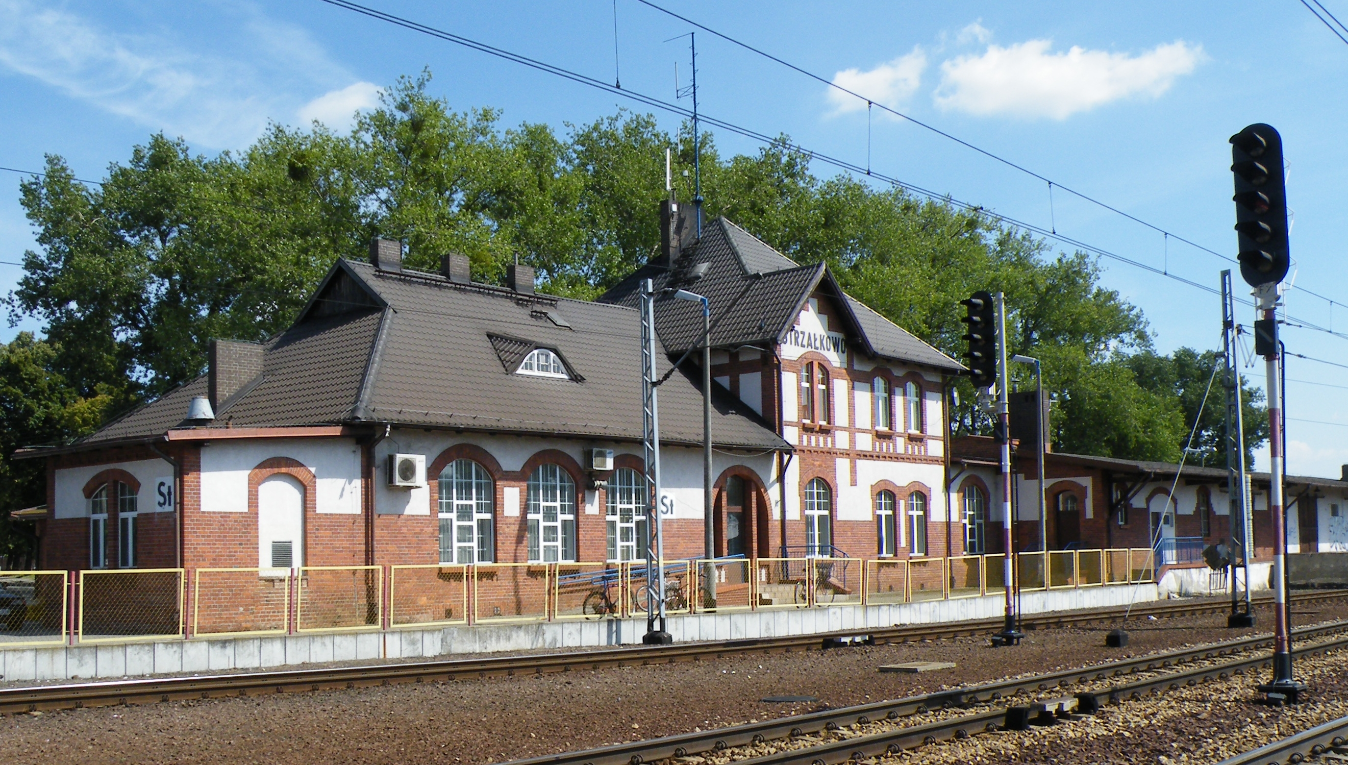 Strzałkowo train station